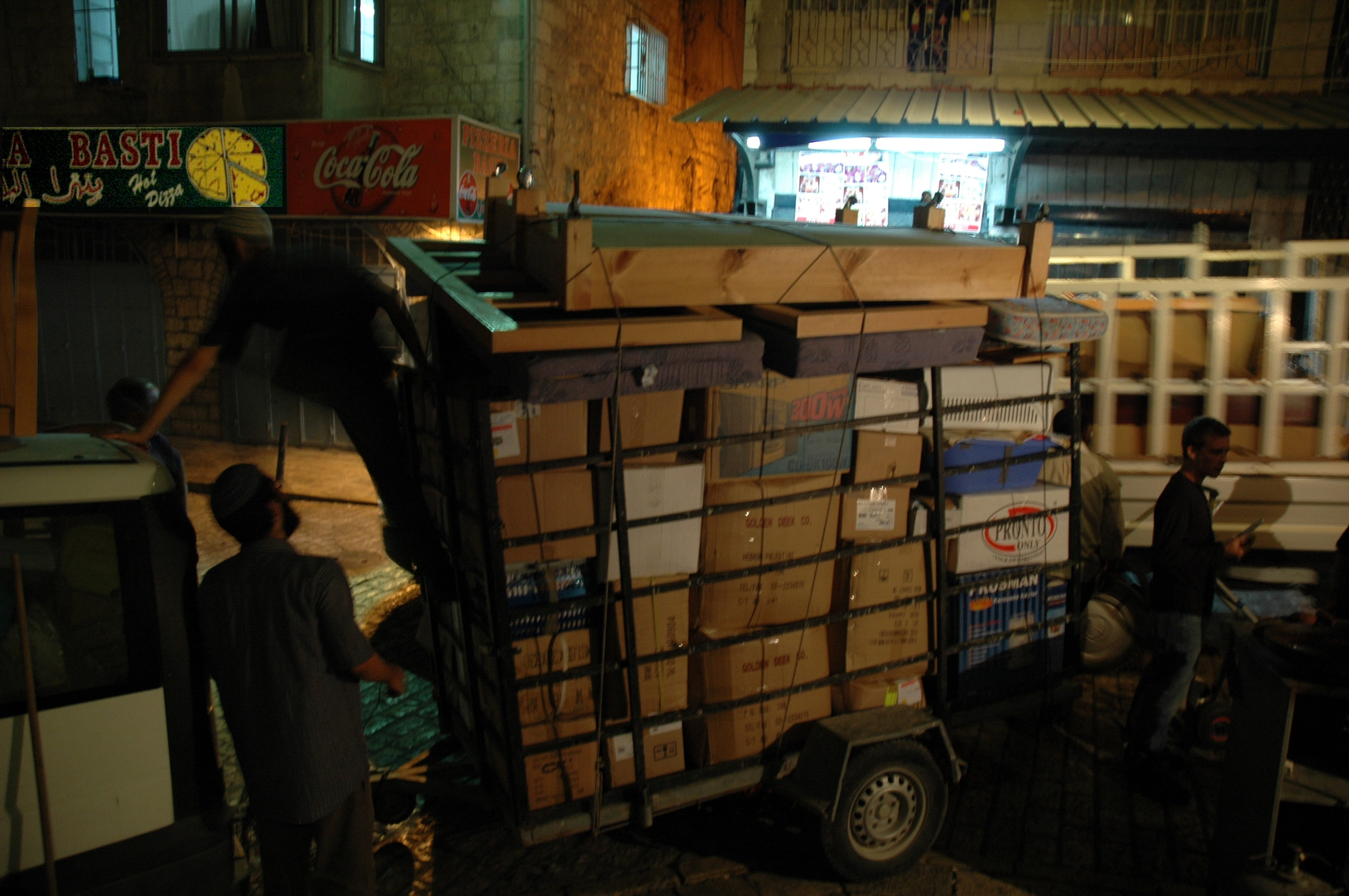 Old Jerusalem, Al wad road - Men move a truck into the old city.